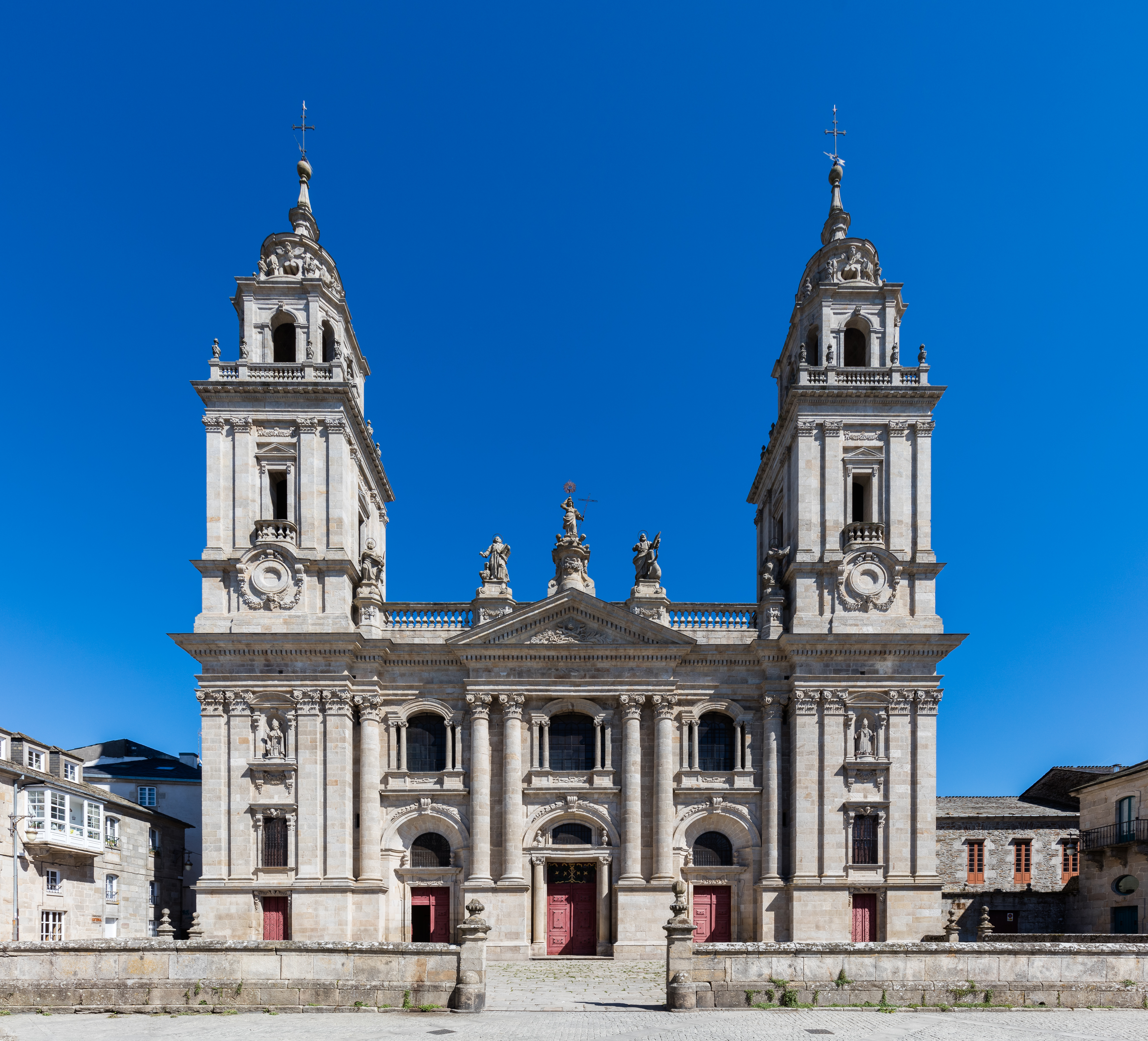 St Mary Cathedral, Lugo, Spain